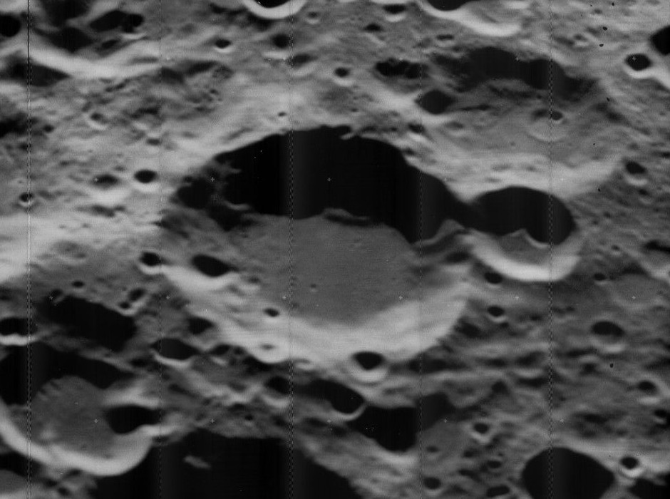 Oblique view of Sanford, on the far side of the moon, facing west.